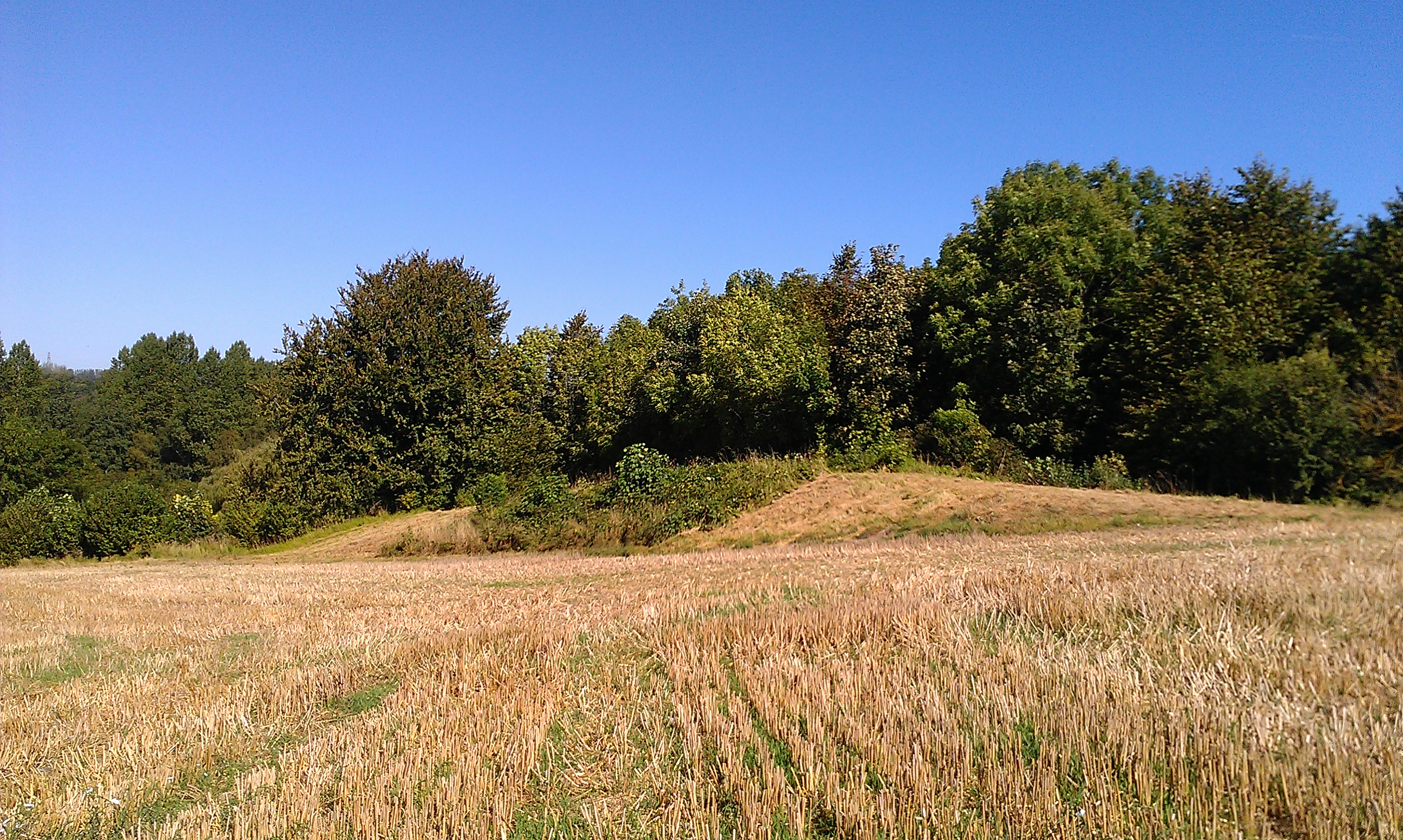 Julliberrie's Grave, an Early Neolithic long barrow in Kent, south-east England.